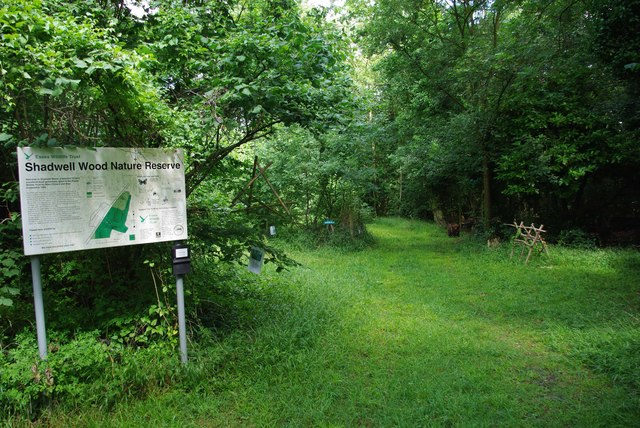 Shadwell Wood. Shadwell Wood Nature Reserve is owned by Essex Wildlife trust, it is an SSSI and Oxlip wood. Oxlips are spring flowers related to cowslips that only grow in the vicinity of the Essex Hertfordshire and Cambridgeshire borders. For more info for more pictures see 12455952 or continue on a virtual tour of Wildlife Trust Reserves in Essex by visiting 1363026